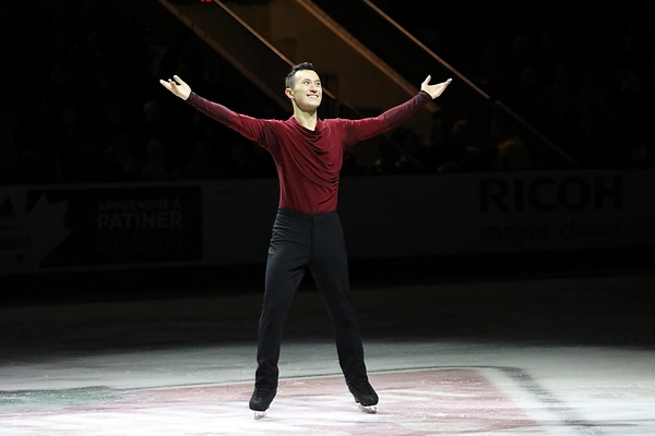 Patrick Chan at the 2018 Canadian National Figure Skating Championships